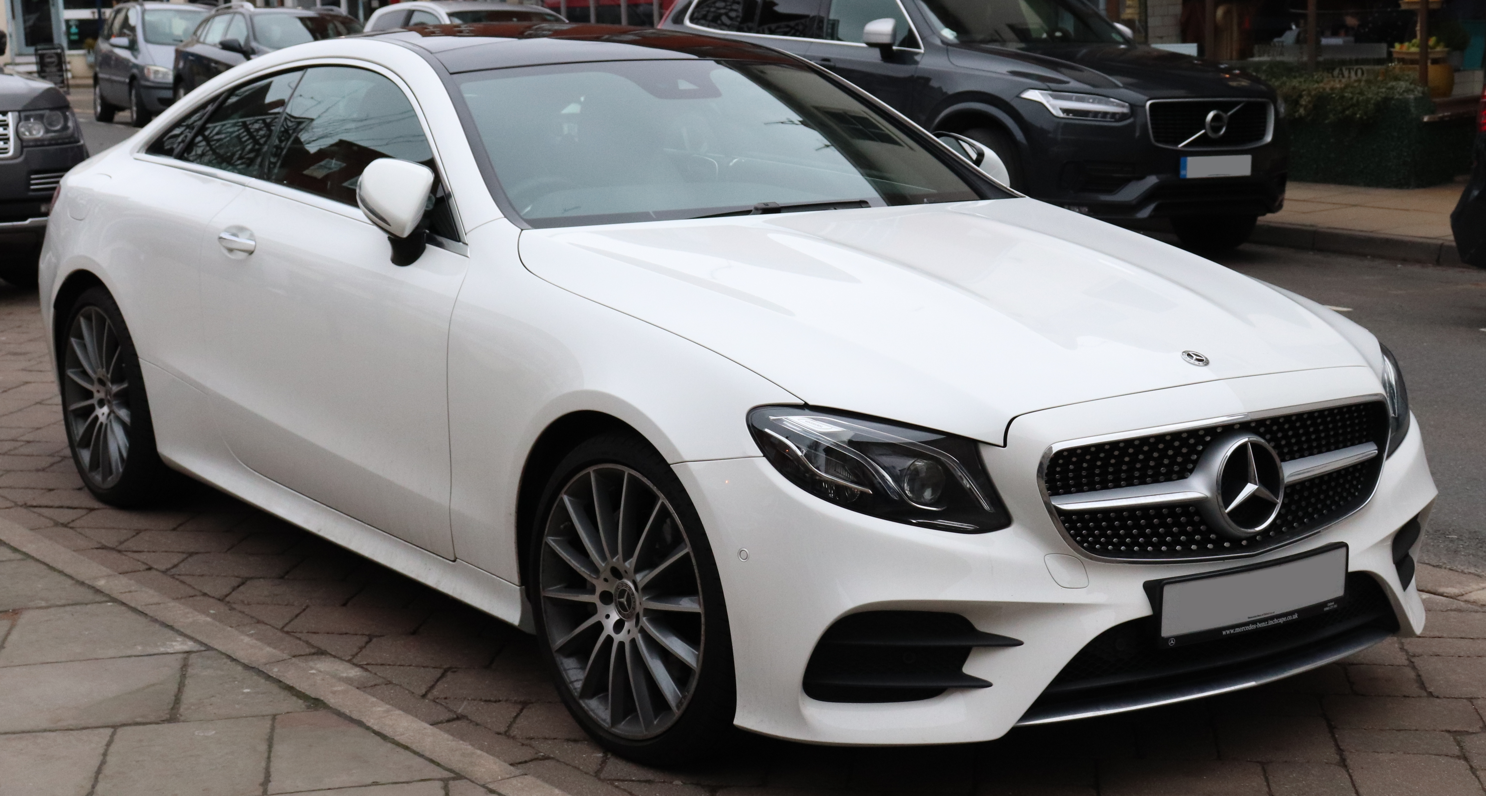 2017 Mercedes-Benz E220d AMG Line Premium+ 2.0 Front Taken in Warwick